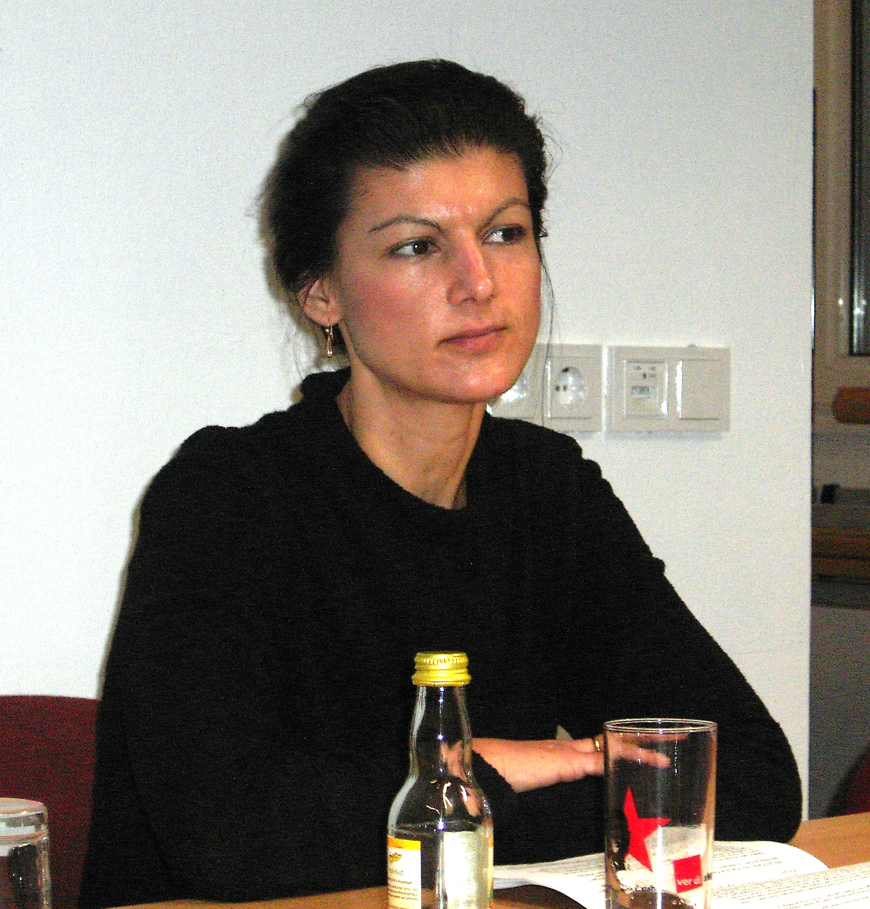 Member of European Parliament Sahra Wagenknecht (Die Linke) during an election campaign for the Hessian Diet 2008 in Gießen, Germany.